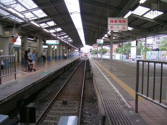 Daishi line platforms at Keikyu Kawasaki Station